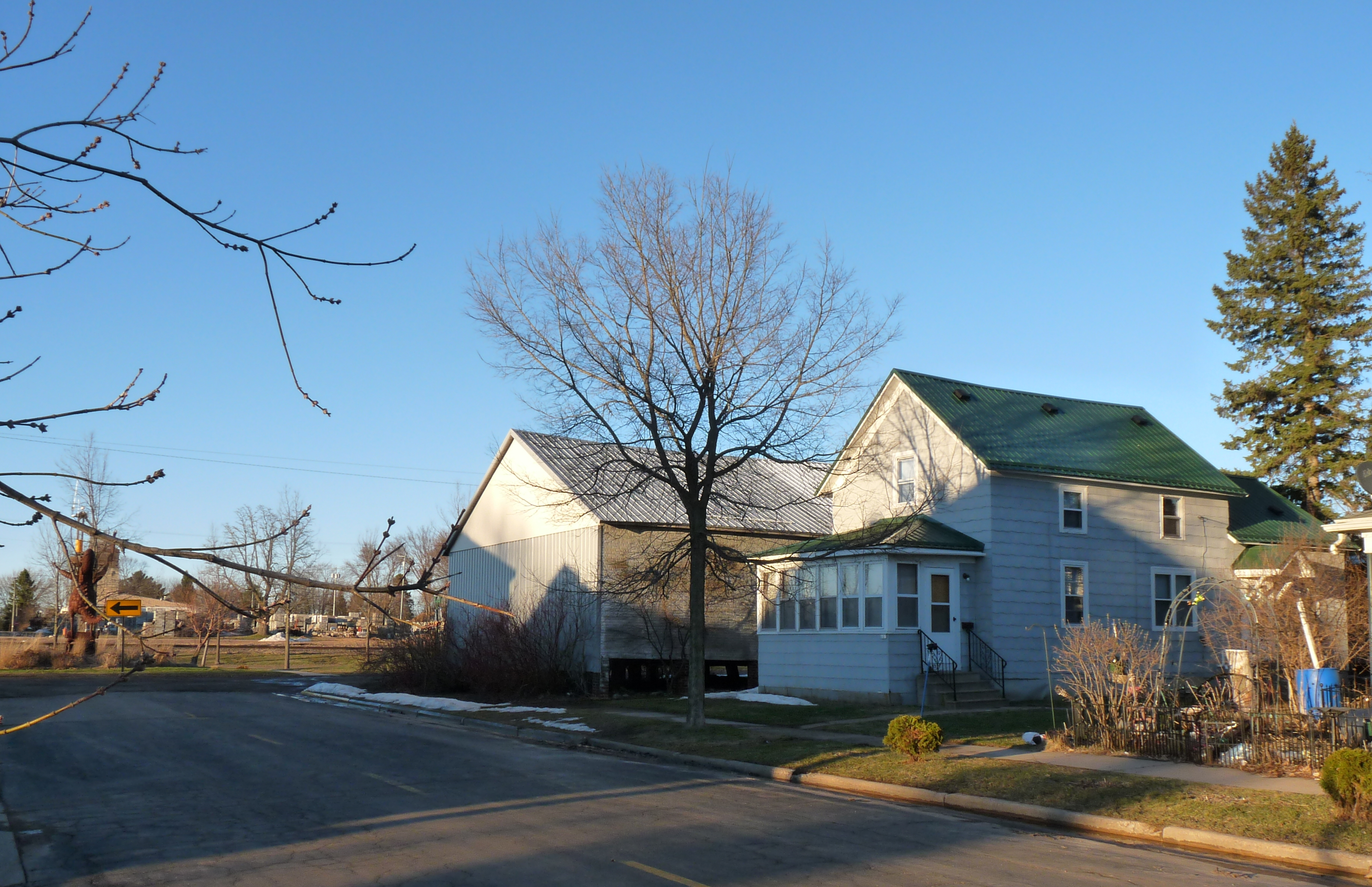 The house at 107 S. Cherry Ave. is probably the oldest house in the Pleasant Hill Residential Historic District in Marshfield, Wisconsin. It was built around 1880 and is the green-roofed structure on the right. The railroad, built only eight years before the house, can just be seen at the left. Between them is a simple warehouse built along the tracks at a later date.